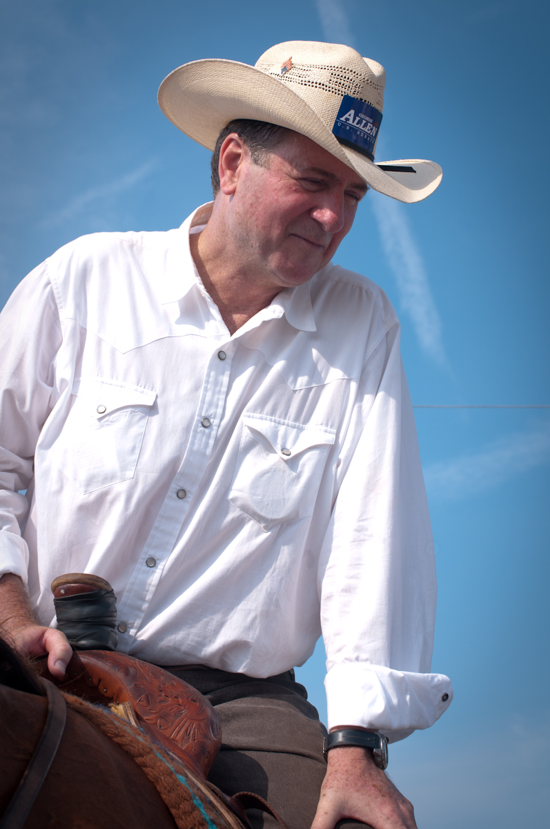 George Allen on a horse, on campaign trail at Crozet, VA. during the 4th of July parade.